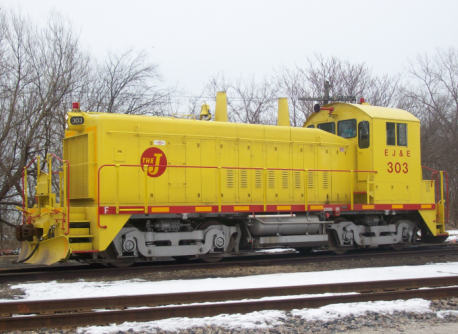 EJ&E SW1200 #303 sits in Waukegan, Illinois wearing its new yellow paint scheme.